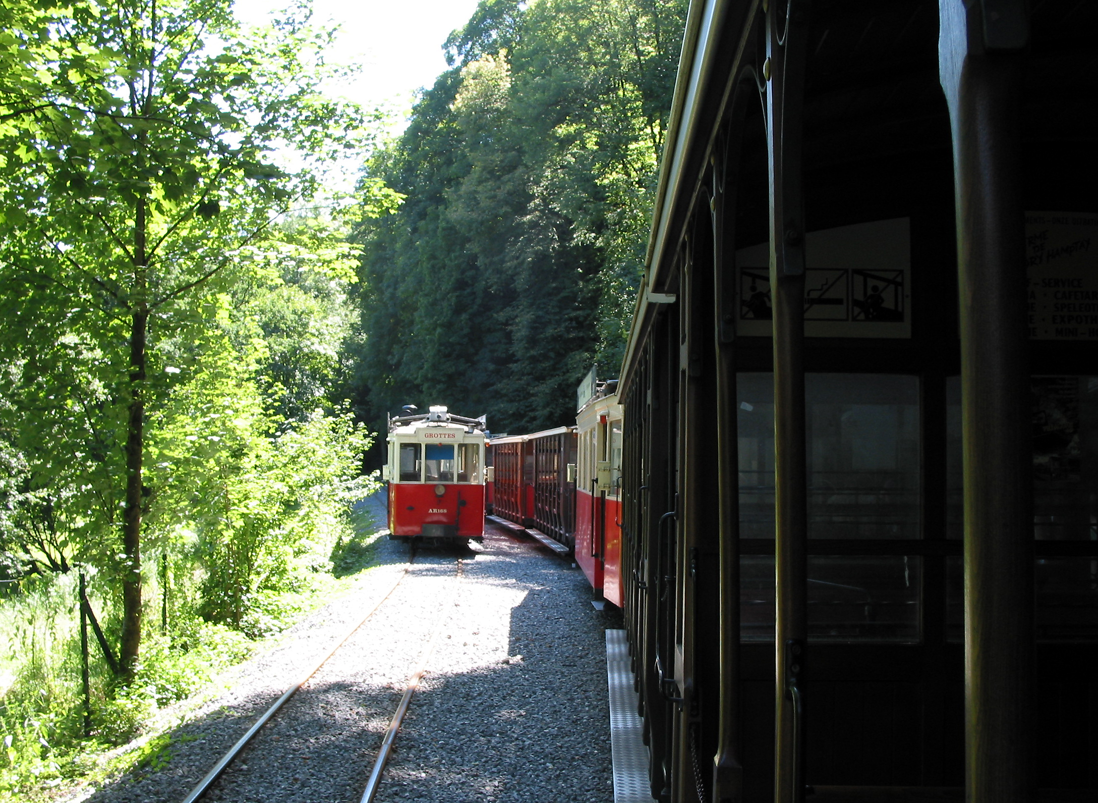 Han-sur-Lesse (Belgium), the tram of the caves.